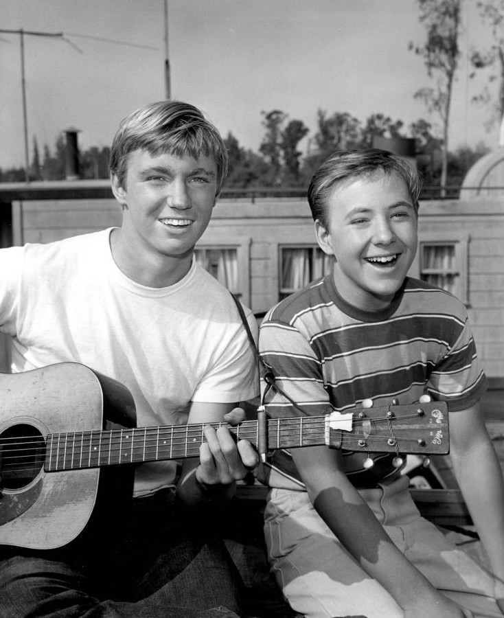 Photo from the television program It's A Man's World. Pictured from left: Randy Boone as Vern Hodges and Michael Burns as Howie Corbett.